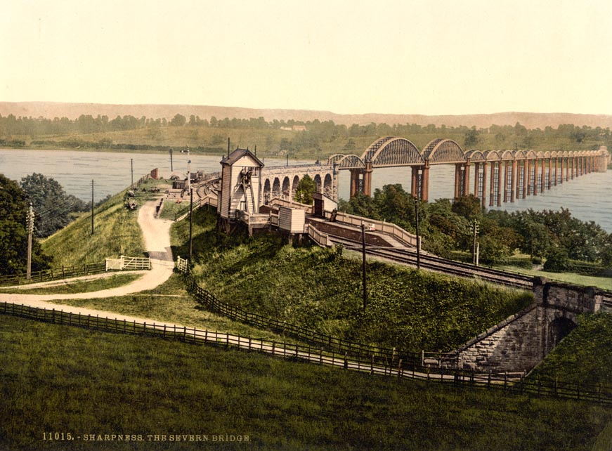 The Severn Bridge Sharpness England Despite the caption, this is actually Severn Bridge station on the West bank of the Severn, and Sharpness would be on the opposite bank, off to the right of this photograph.